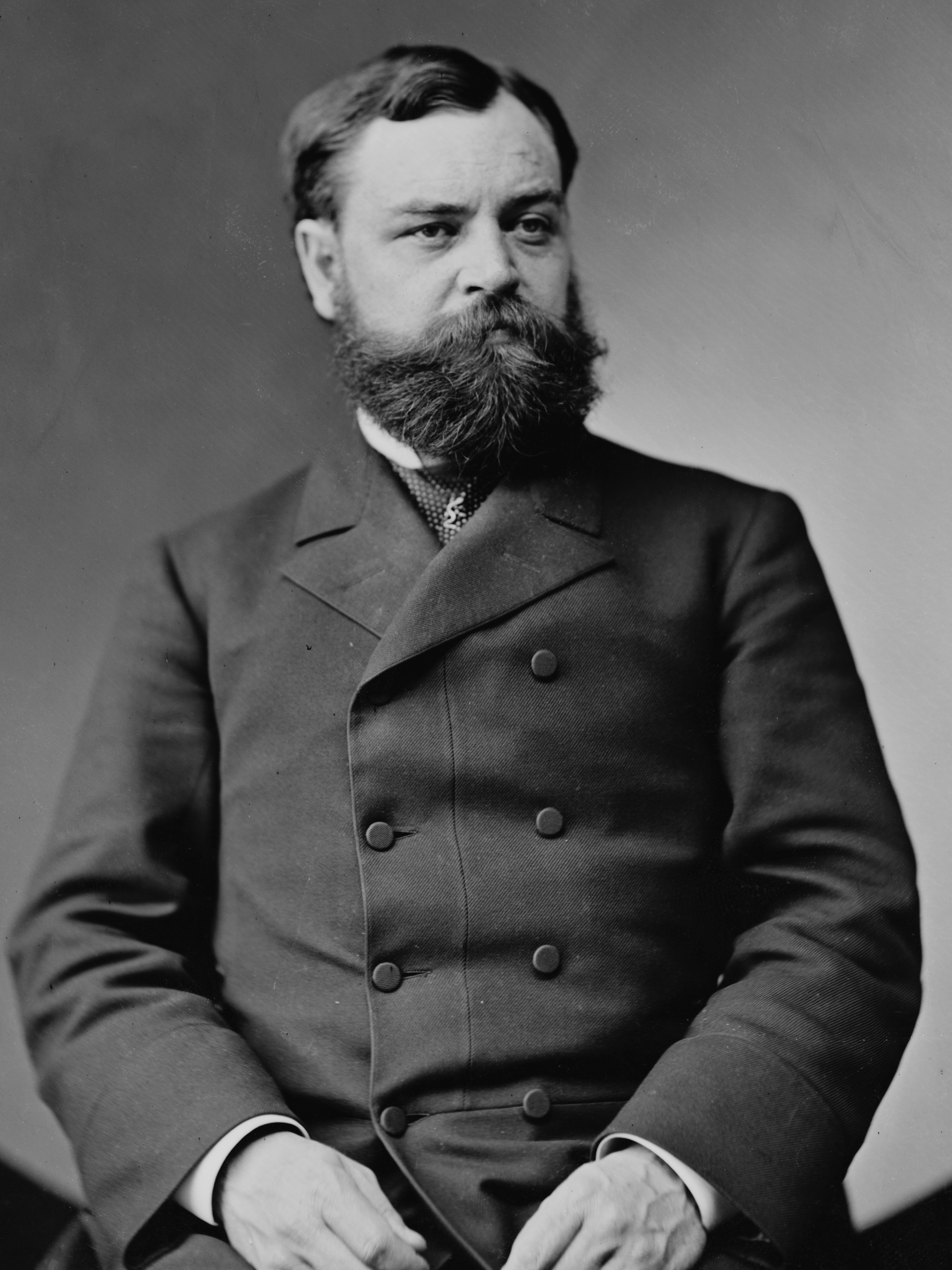 Robert Todd Lincoln